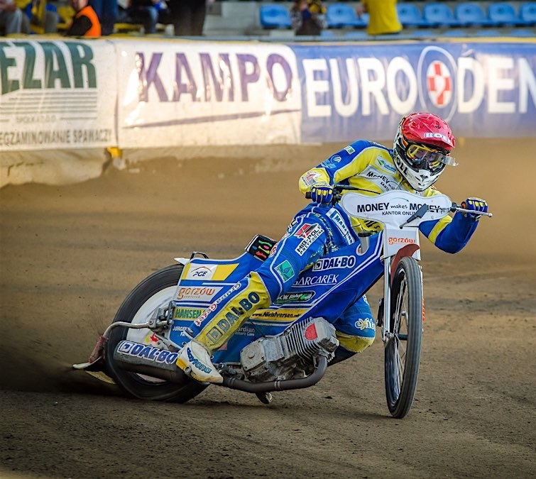 Niels K. Iversen in "Stal" - season 2015.